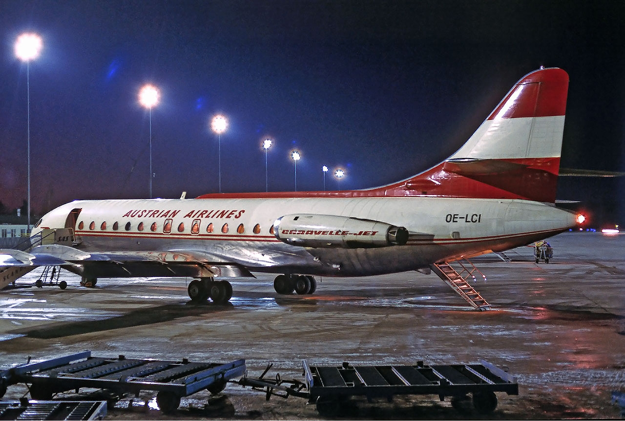 Austrian Airlines Sud SE-210 Caravelle VI-R aircraft (OE-LCI) at Stockholm Arlanda Airport.